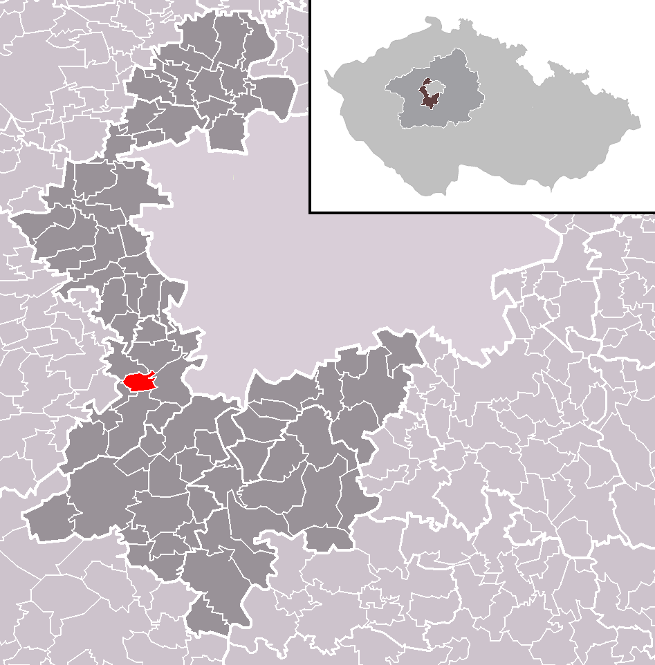 Location of Vonoklasy municipality within Prague-West District and administrative area of Černošice as a Municipality with Extended Competence.